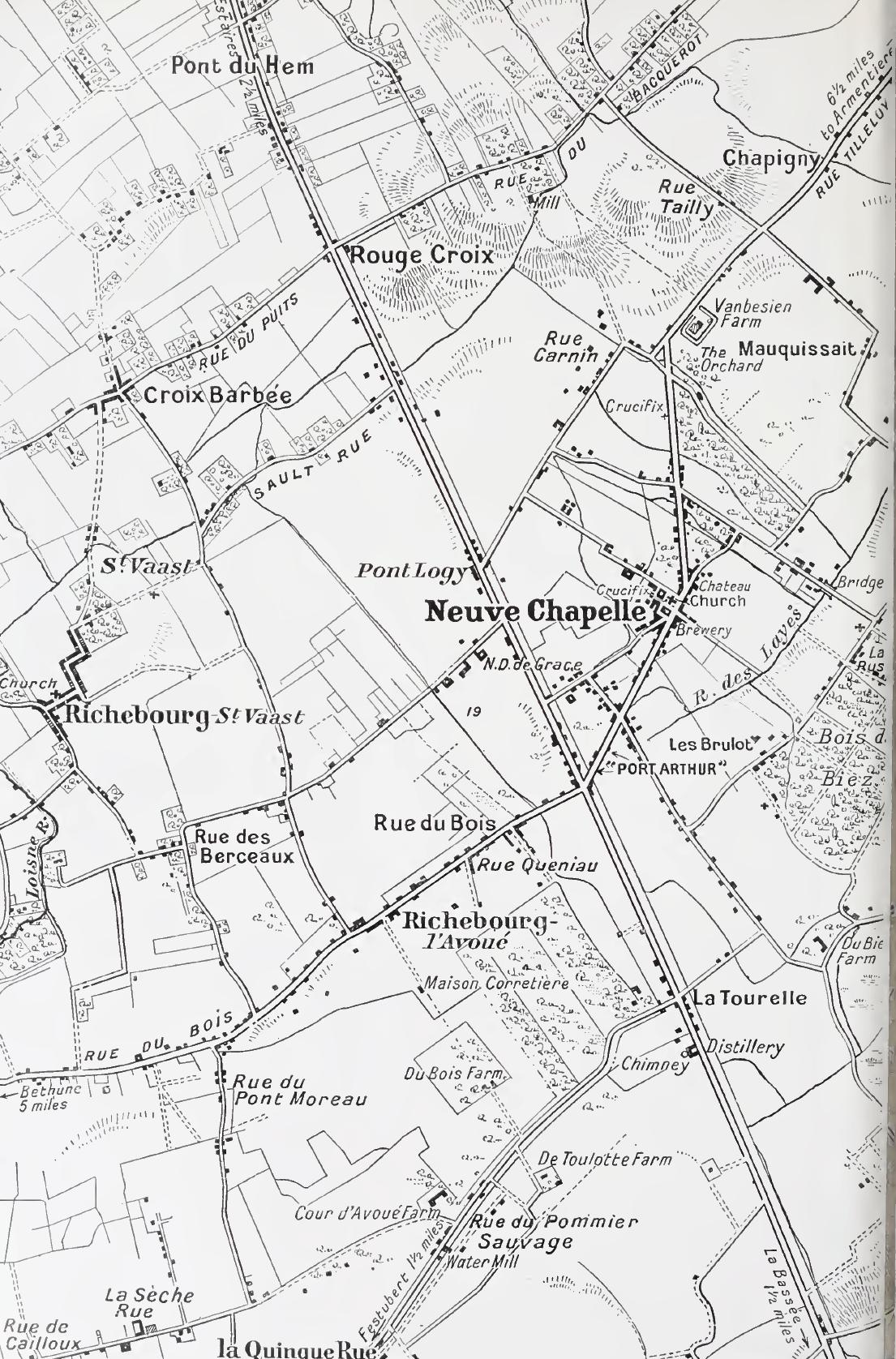 Map Neuve Chapelle, 1915a